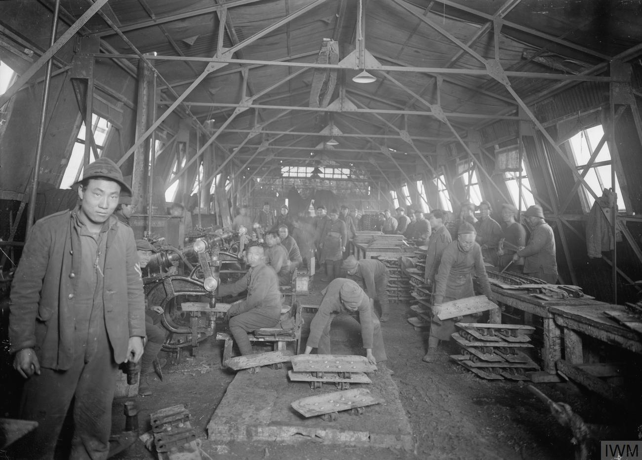 The Chinese Labour Corps on the Western Front, 1914-1918 Riveters of the 51st Chinese Labour Company at work at the Central Workshops, Tank Corps. Teneur, spring 1918.